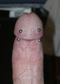 Double/twin dydoe piercings through the glans of the penis.